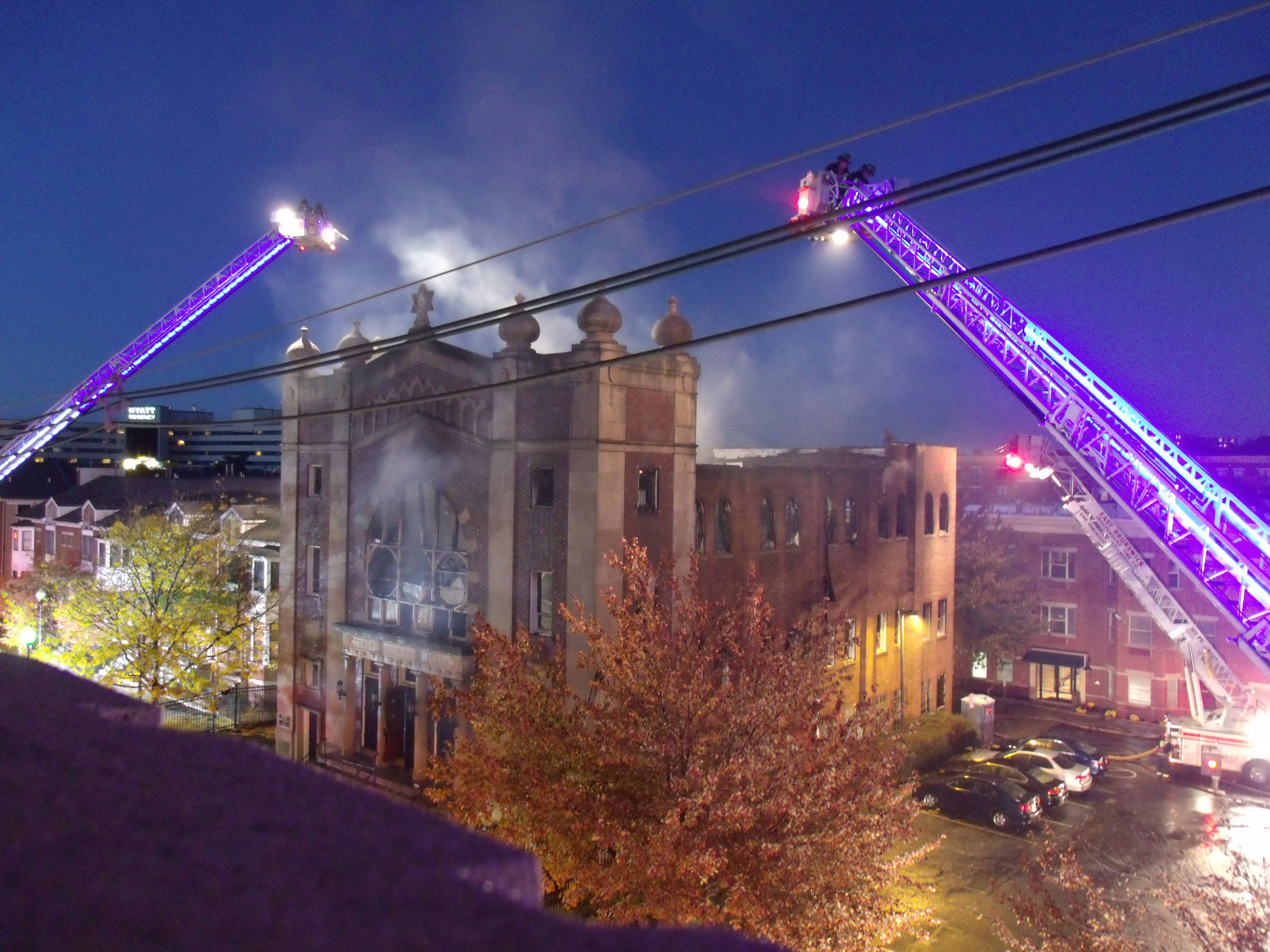 The Poile Zedek Synagogue, New Brunswick, NJ, on the evening of October 23, 2015, having been thoroughly gutted by fire.